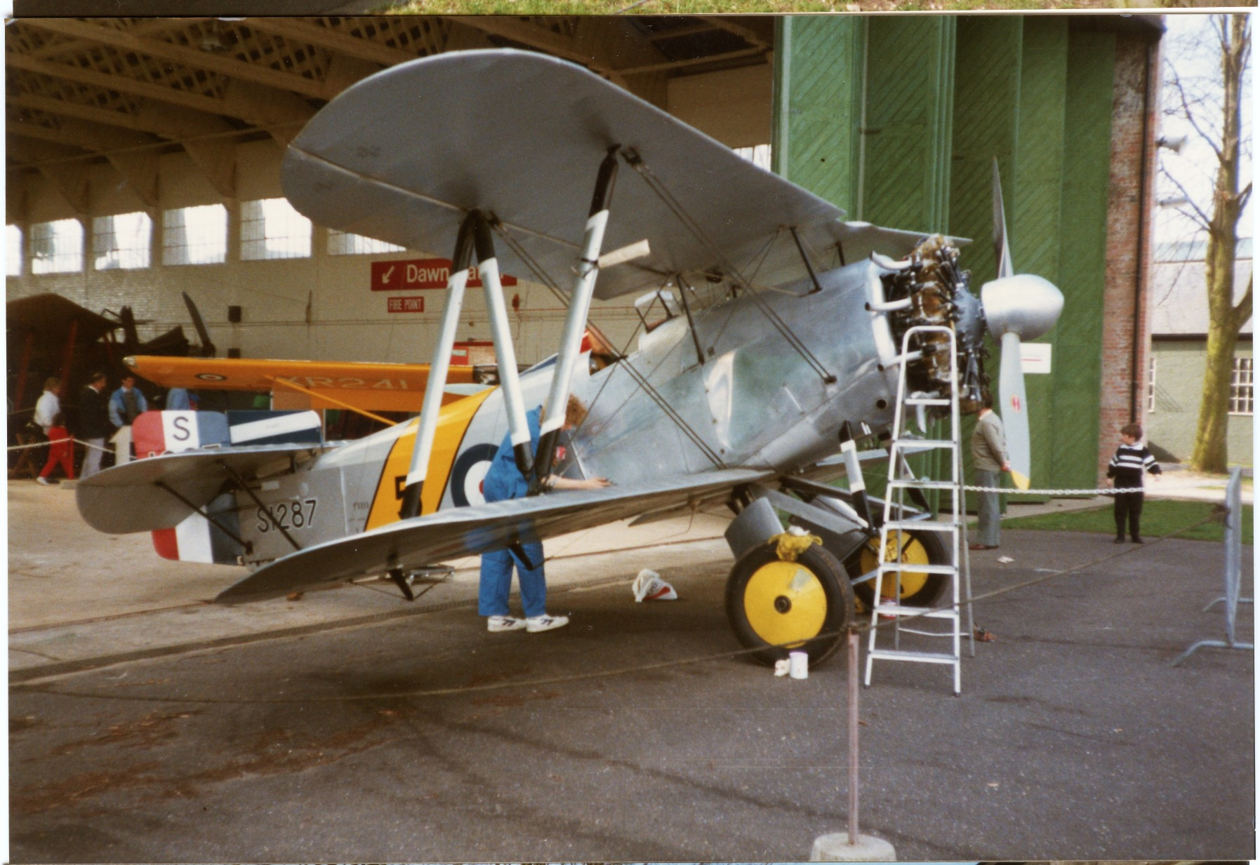 Fairey Flycatcher replica getting a wash at Duxford.